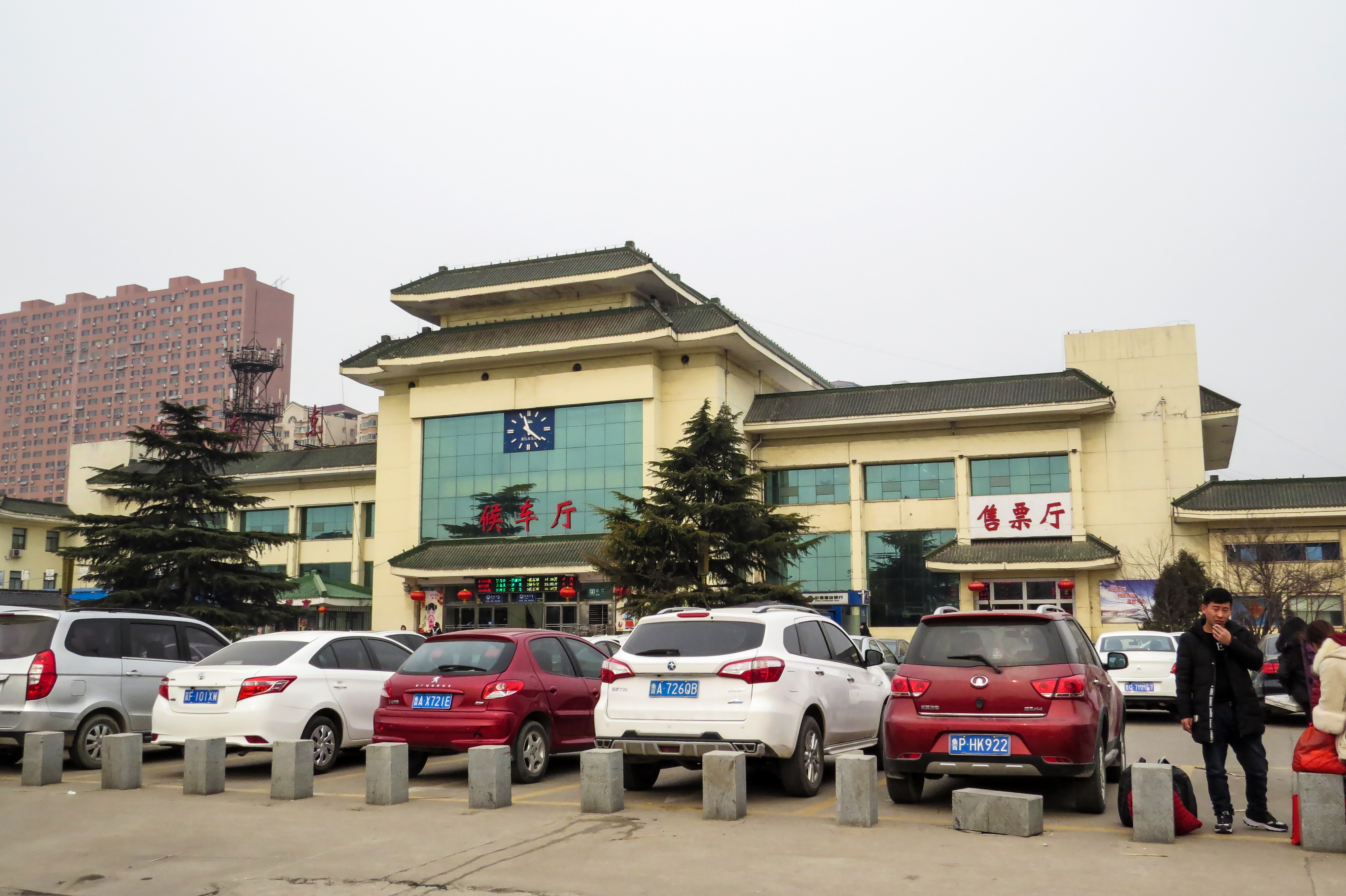 The closest railway station to Daming Lake. This station features a Compas clock manufactured in Jinan.